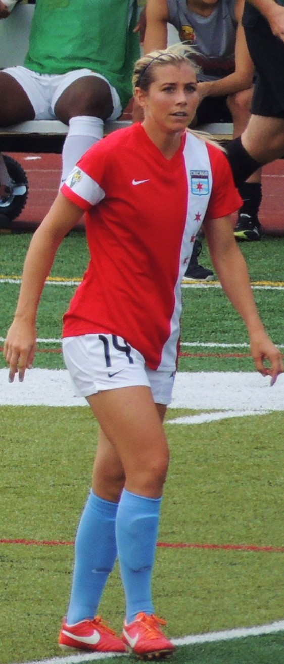 2013-07-04; Taryn Hemmings in Chicago Red Stars vs Western New York Flash